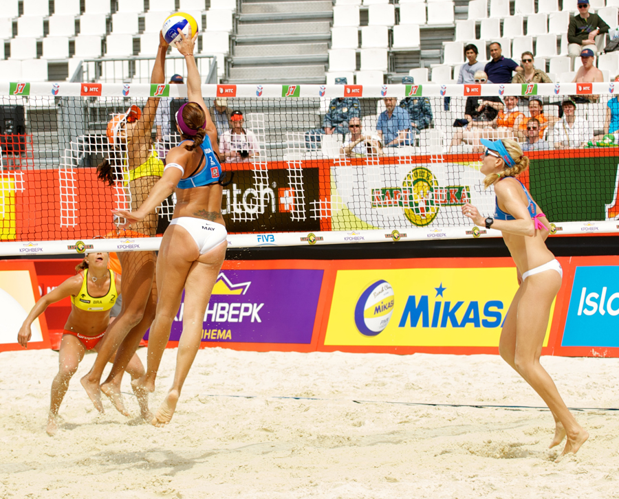 Grand Slam Moscow 2012